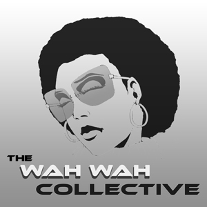 The Wah Wah Collective - Artwork (Grey Version)